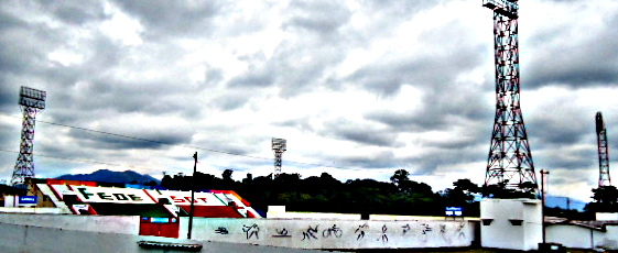 Overview north.